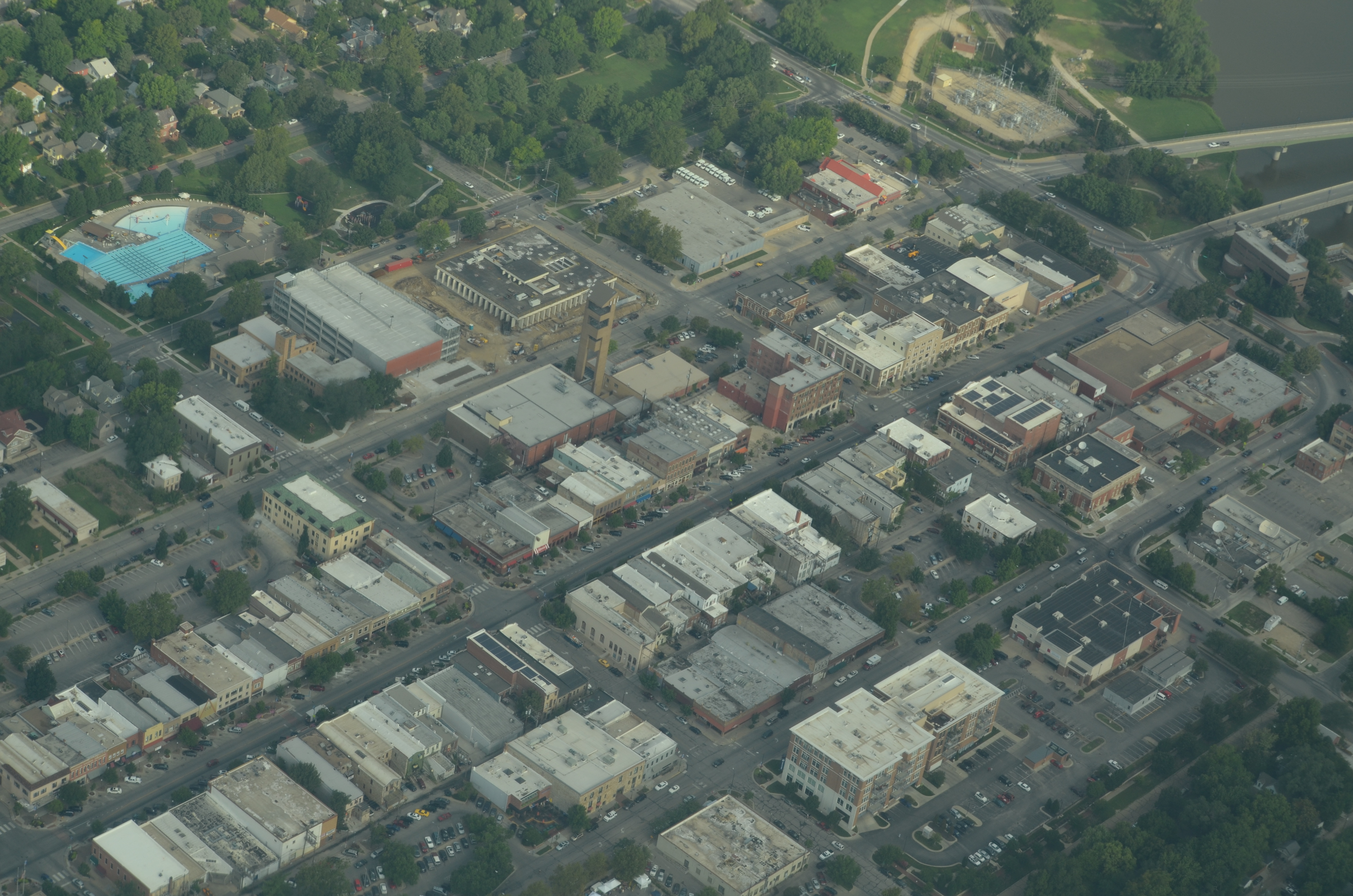 Aerial view Lawrence, Kansas